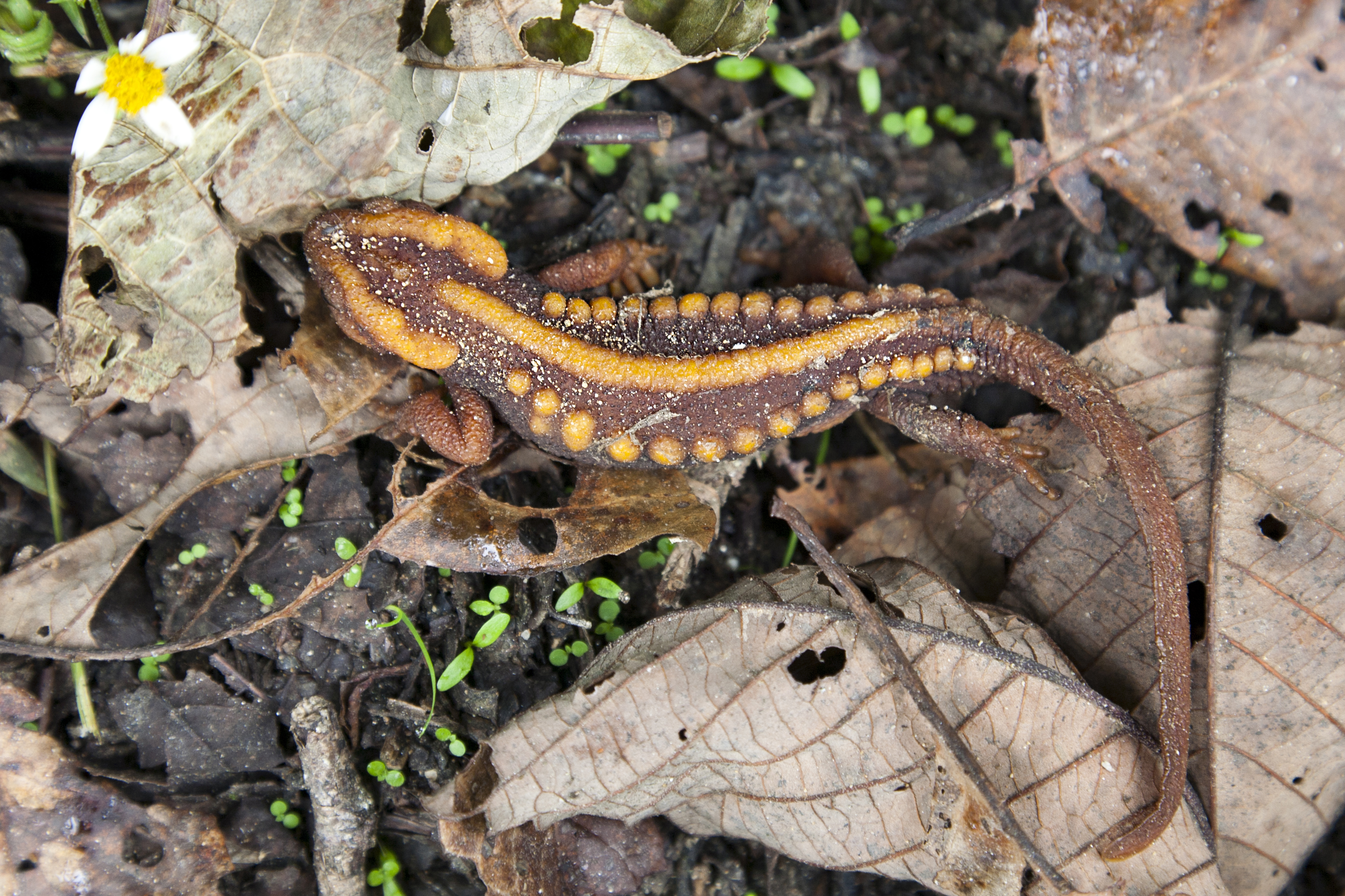 A wild emperor newt, or Mandarin Salamander (Tylototriton shanjing) slowly crawls across the ground in its native habitat in Yuanyang, Yunnan, China.